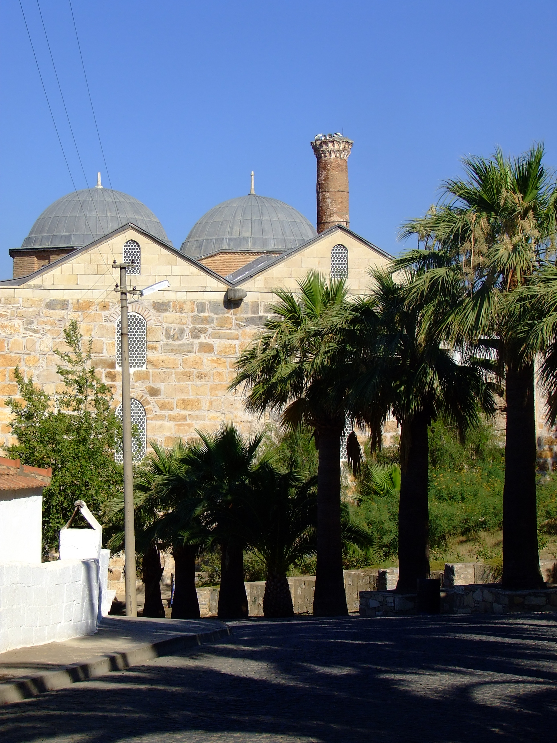 The Isabey Mosque in Selcuk, Turkey, built in 1375.